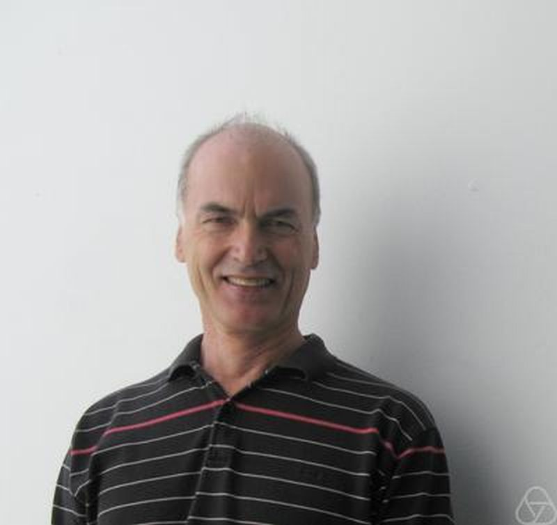 Cameron L. Stewart, Oberwolfach 2012